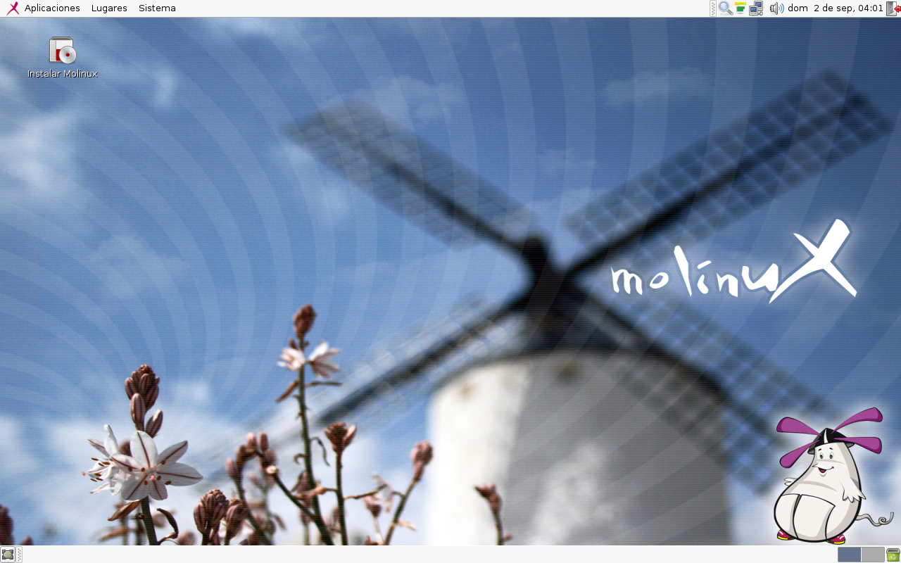 Desktop screen-capture of Molinux 3.0, LiveCD, running GNOME as graphical environment.